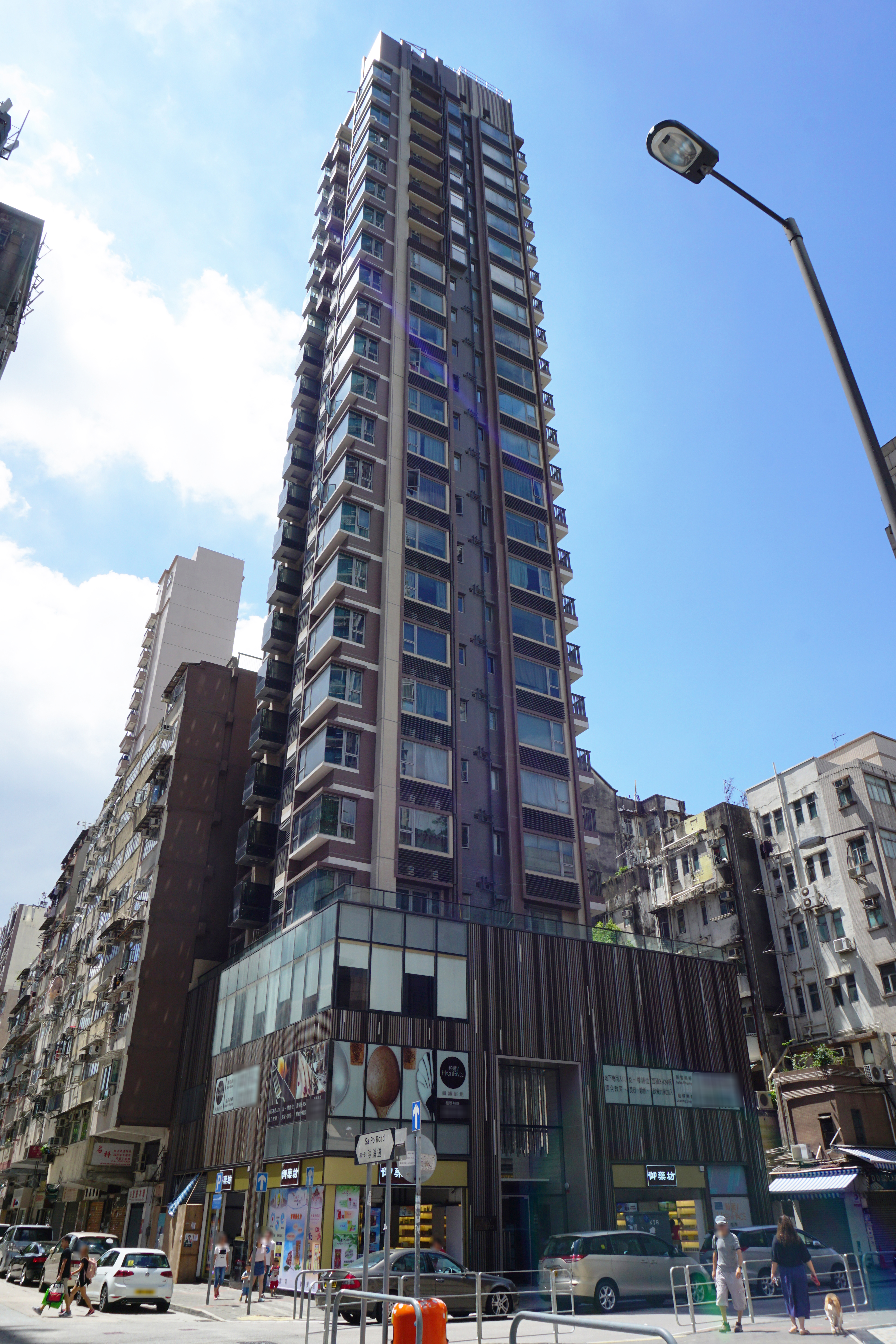 High Place in Kowloon City, Hong Kong.